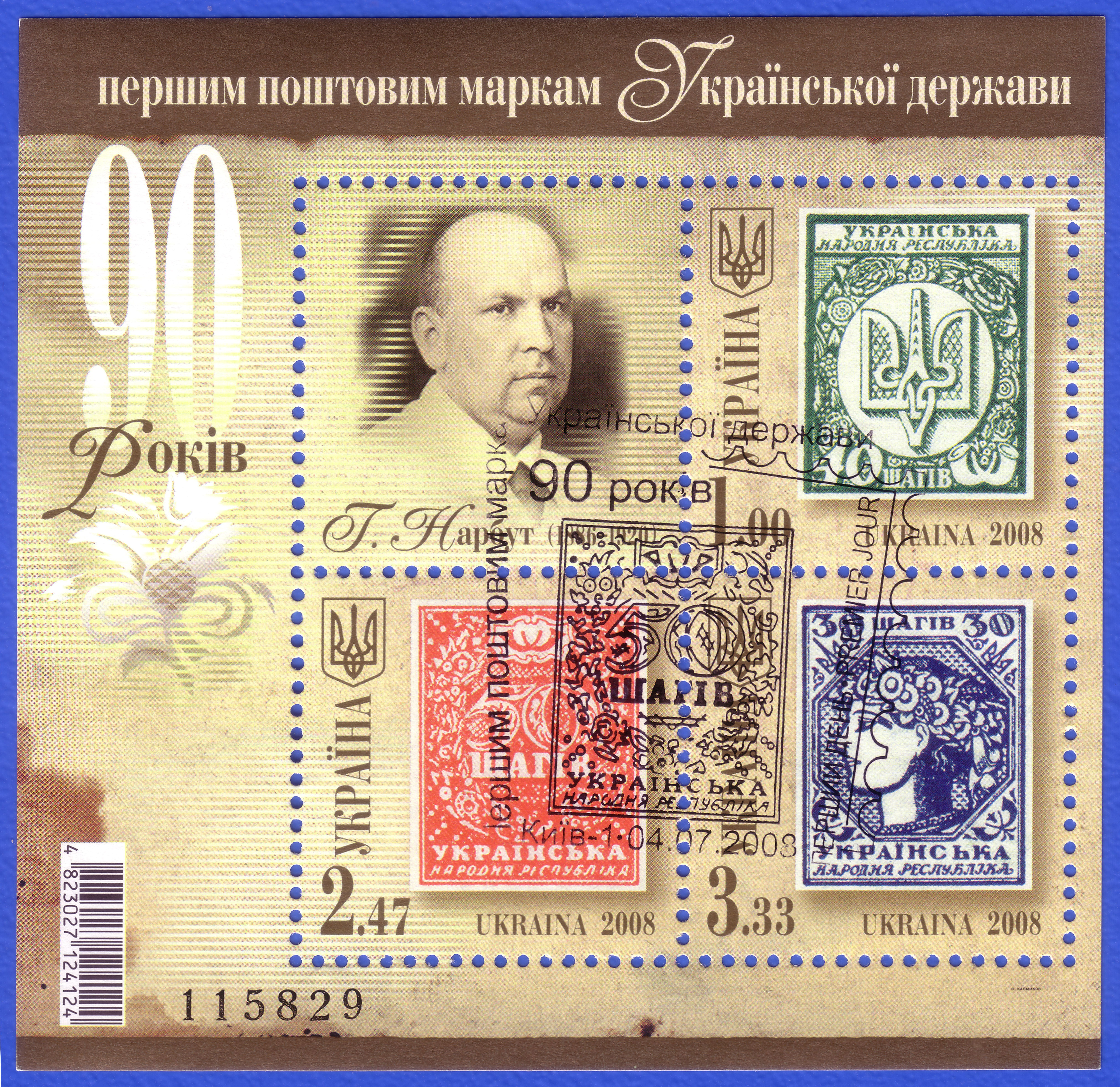 The stamps of Ukraine devoted to the 90 anniversary of the first stamps of Ukraine.